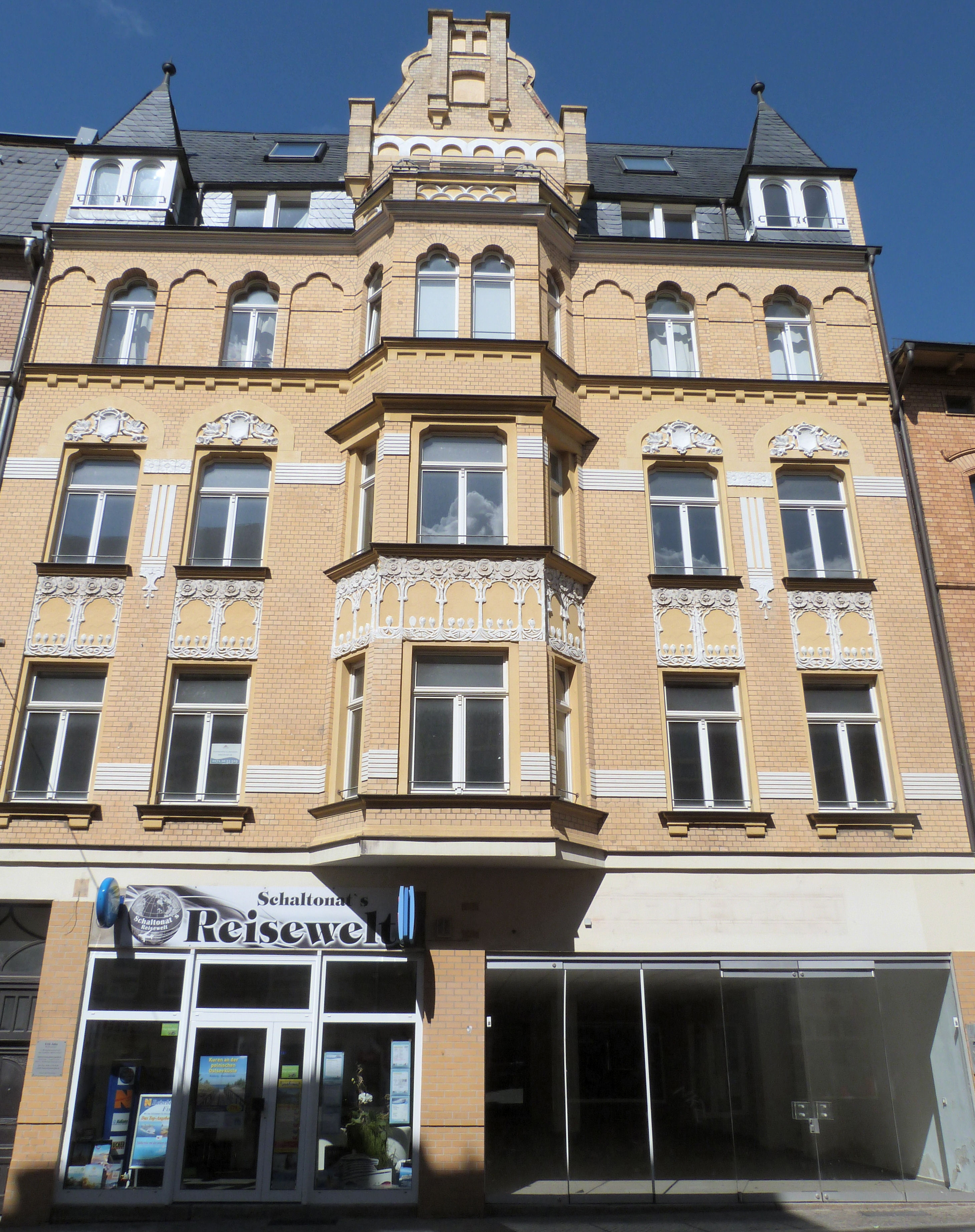 House No. 30, Leipziger Strasse in Halle (Saale)